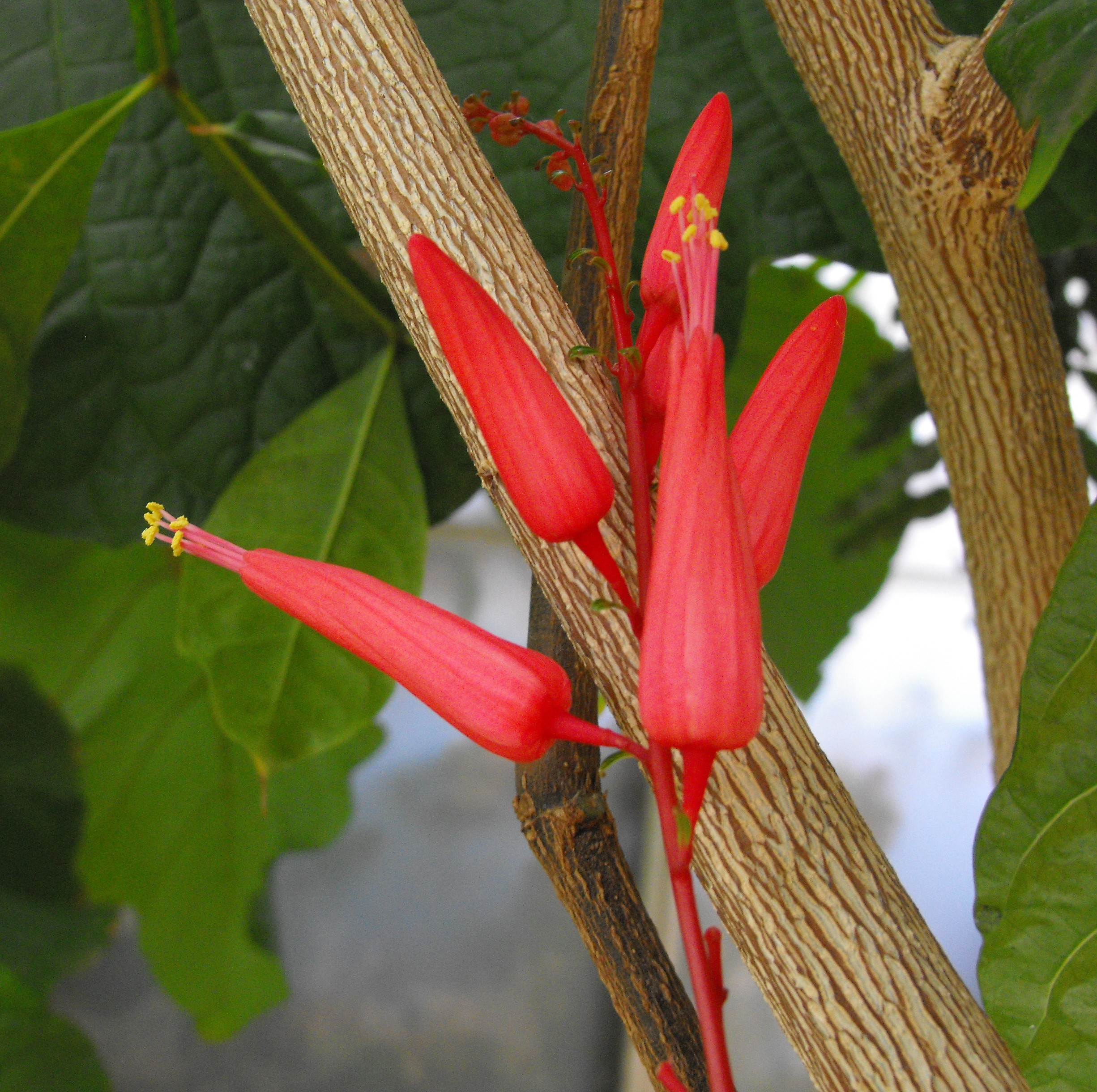 Quassia amara at the Huntington Library & Botanical Gardens in San Marino, California, USA. Identified by sign.